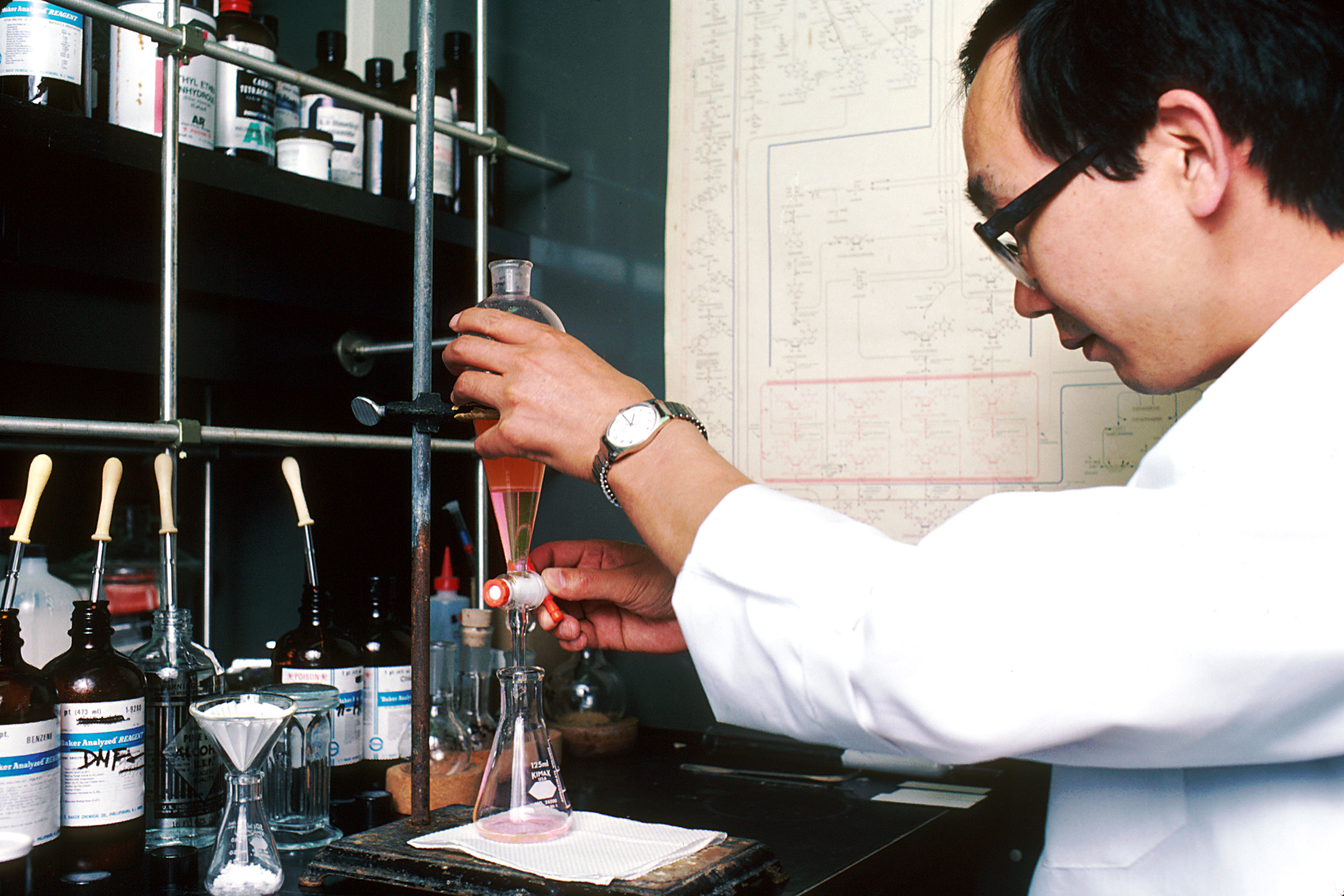 Title Technician Performing Drug Synthesis Description An Asian male technician performing drug synthesis. He is in a laboratory setting, wearing a lab coat. He is pouring and spooning chemicals into a long tube where they are mixed and later placed in the beaker at the bottom. Topics/Categories People -- Adolescent/Young Adult People -- Adult People -- Health Professional Science and Technology -- Laboratory Techniques/Equipment Type Color, Photo Source National Cancer Institute